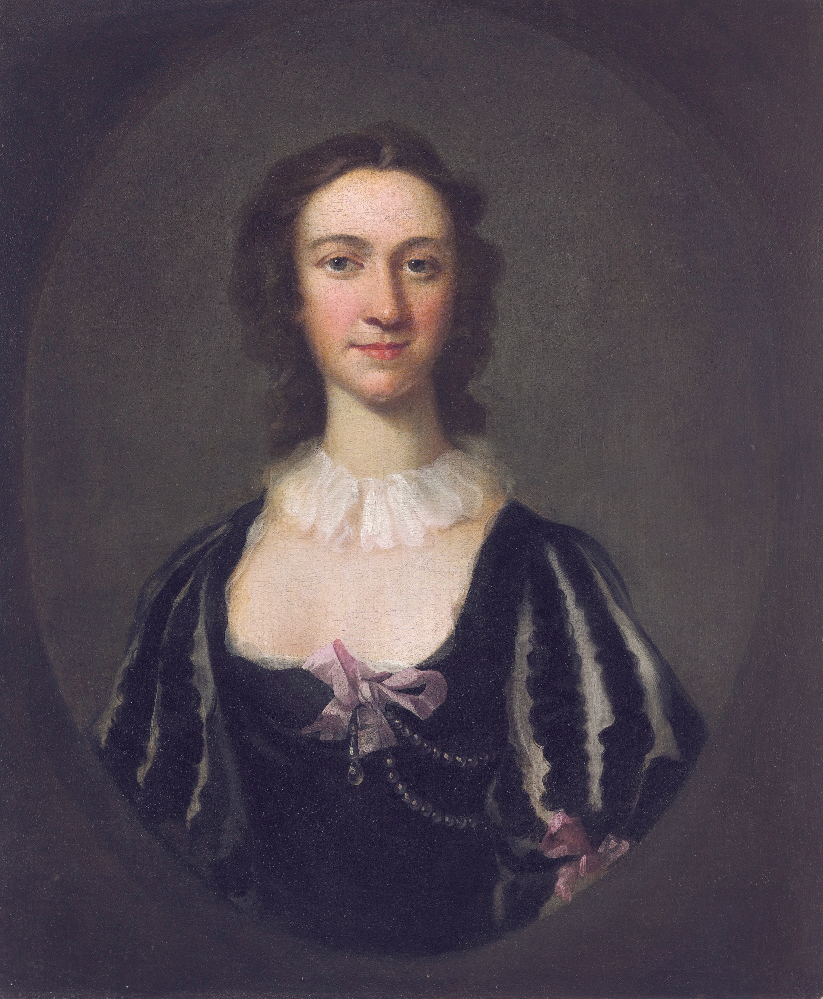 Flora MacDonald (1722-1790) oil on canvas 76 x 63 cm 18th century